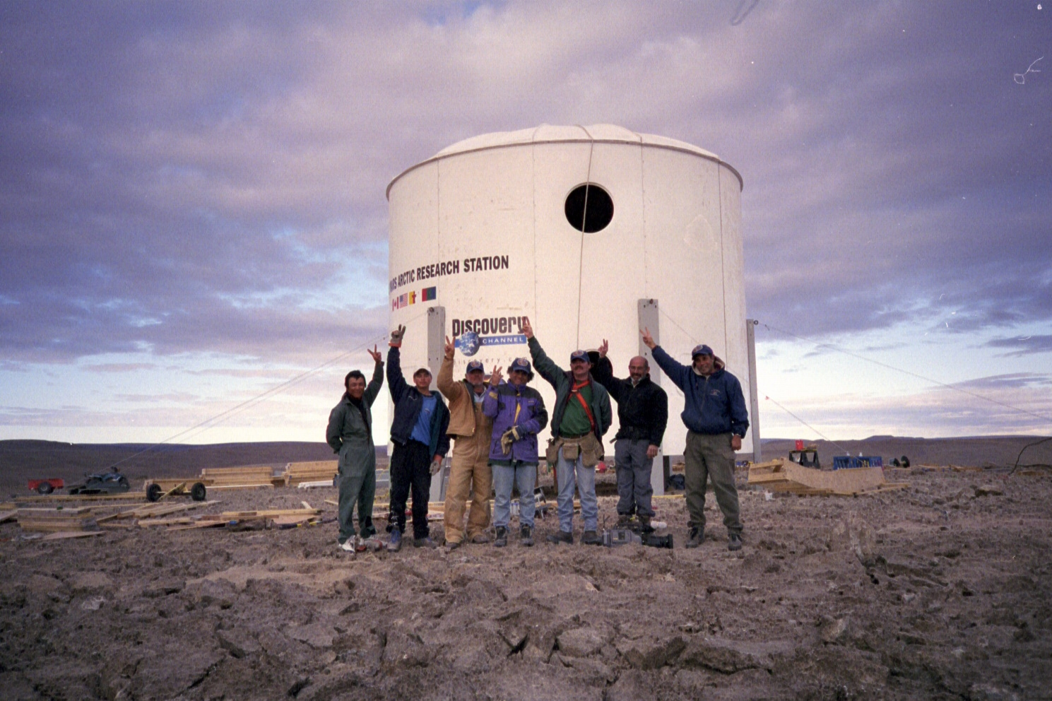 The completely assembled Flashline Mars Arctic Research Station, on Devon Island in the Canadian Arctic. Shown in the image from left to right are Joe Amarualik, Joannie Pudluk, John Kunz, Frank Schubert, Matt Smola, Bob Nesson and Robert Zubrin.